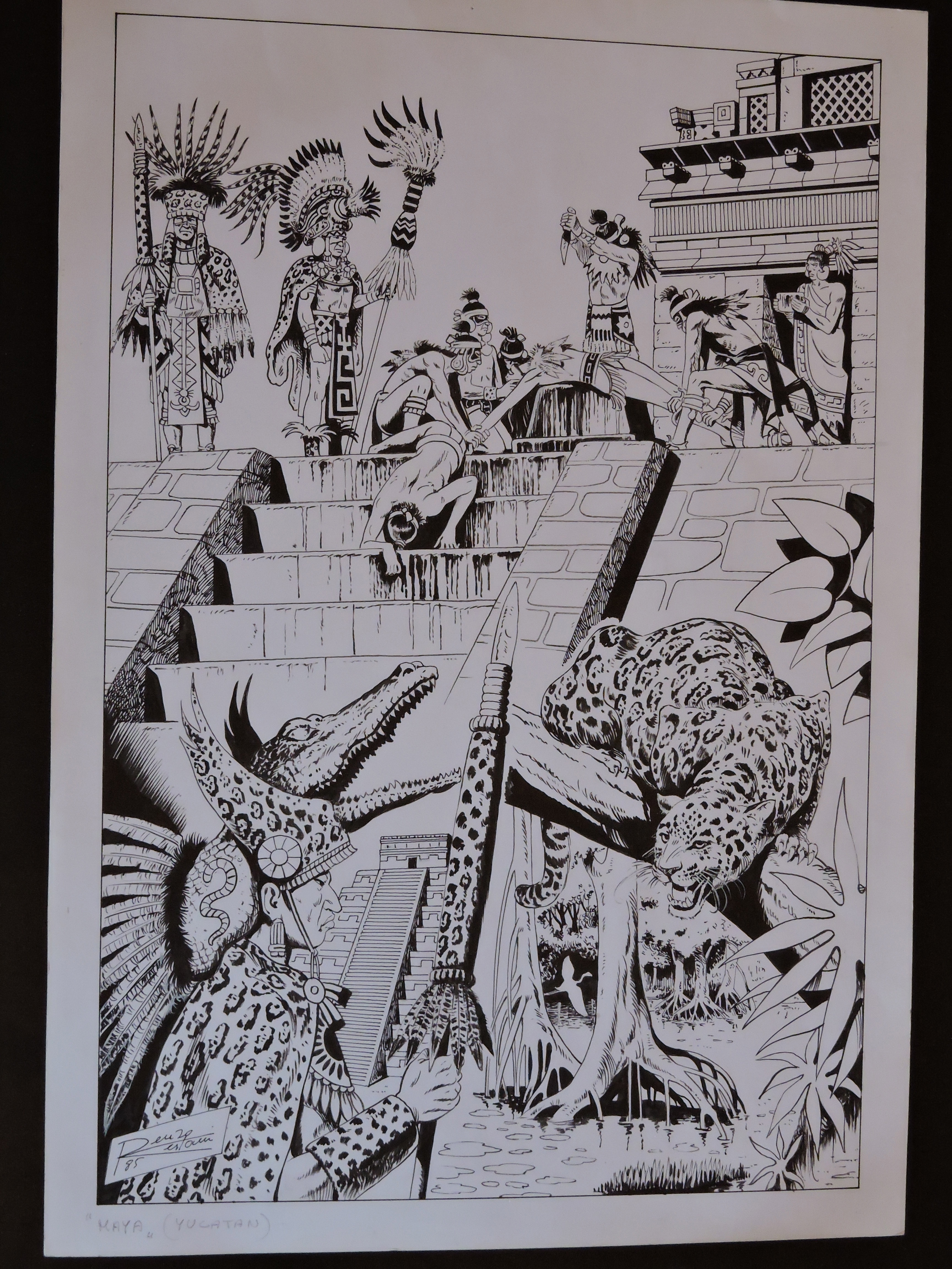 Tavola Originale